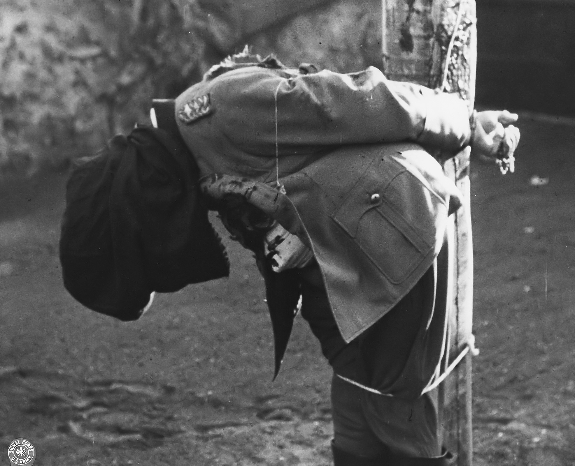 German General Anton Dostler's body slumps toward the ground after being executed by a firing squad at Aversa, Italy. The hands still grip a rosary. The general was convicted and sentenced to death by an American Military Tribunal.